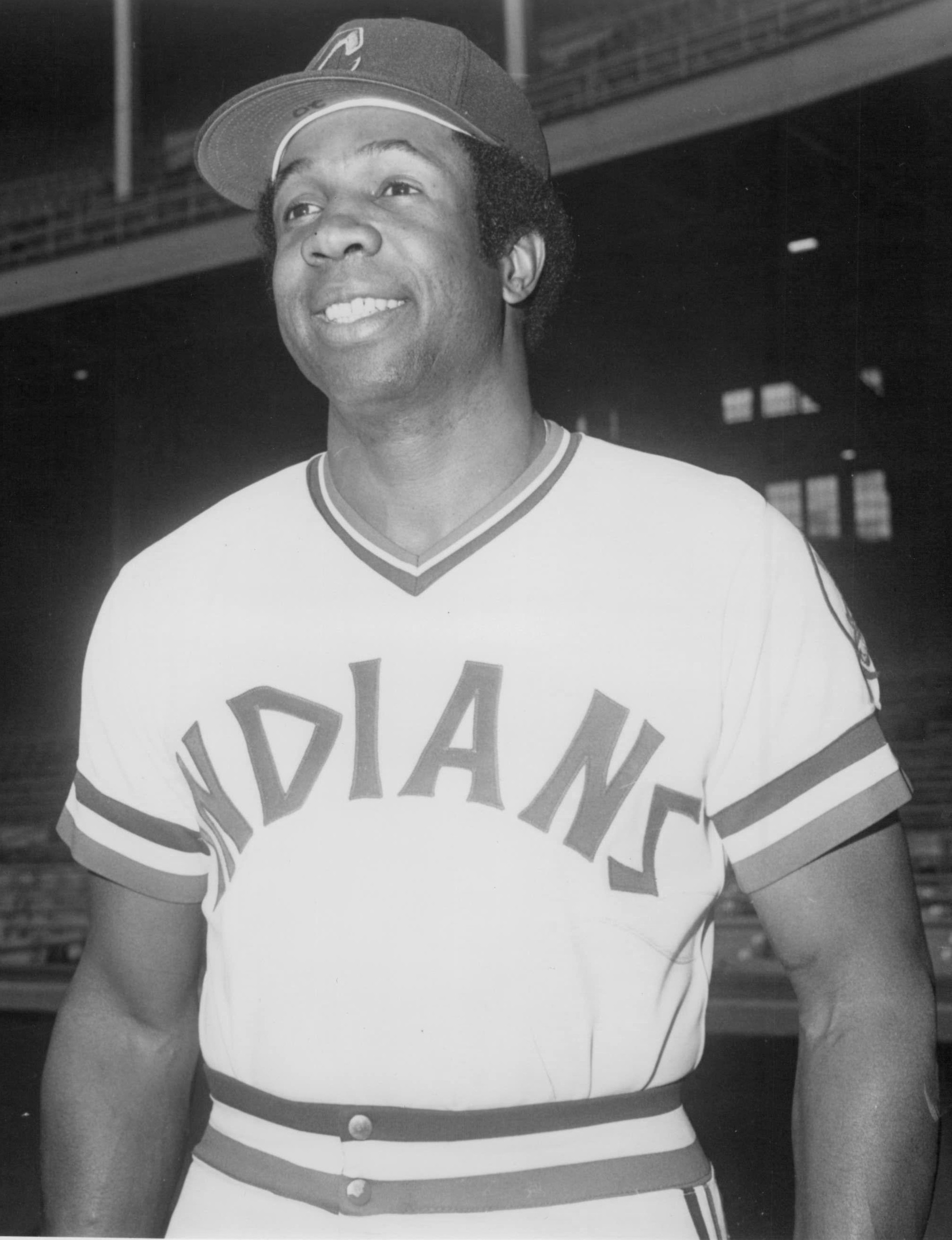 Professional baseball player Frank Robinson